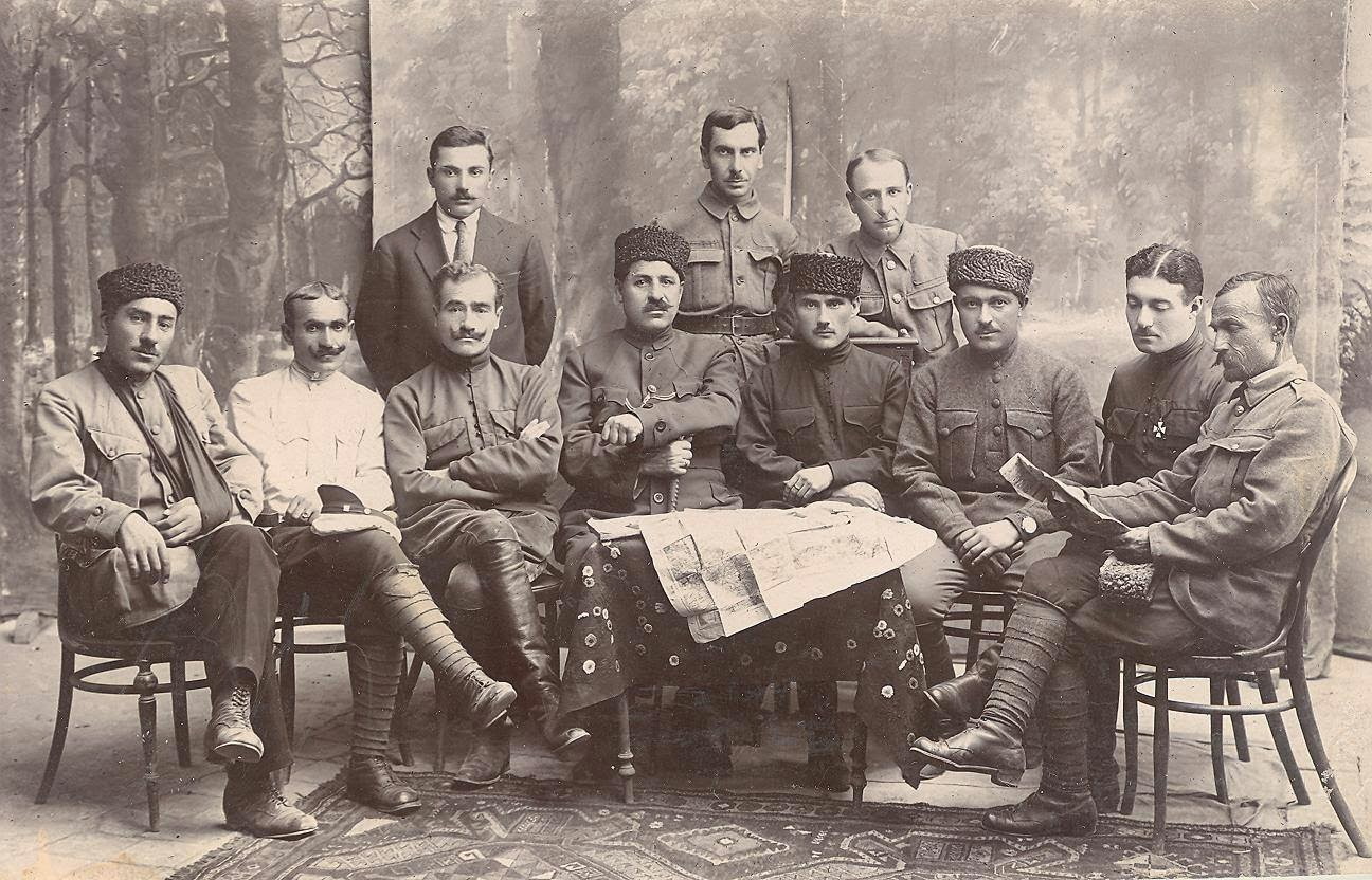 National Salvation Committee of Armenia 1921